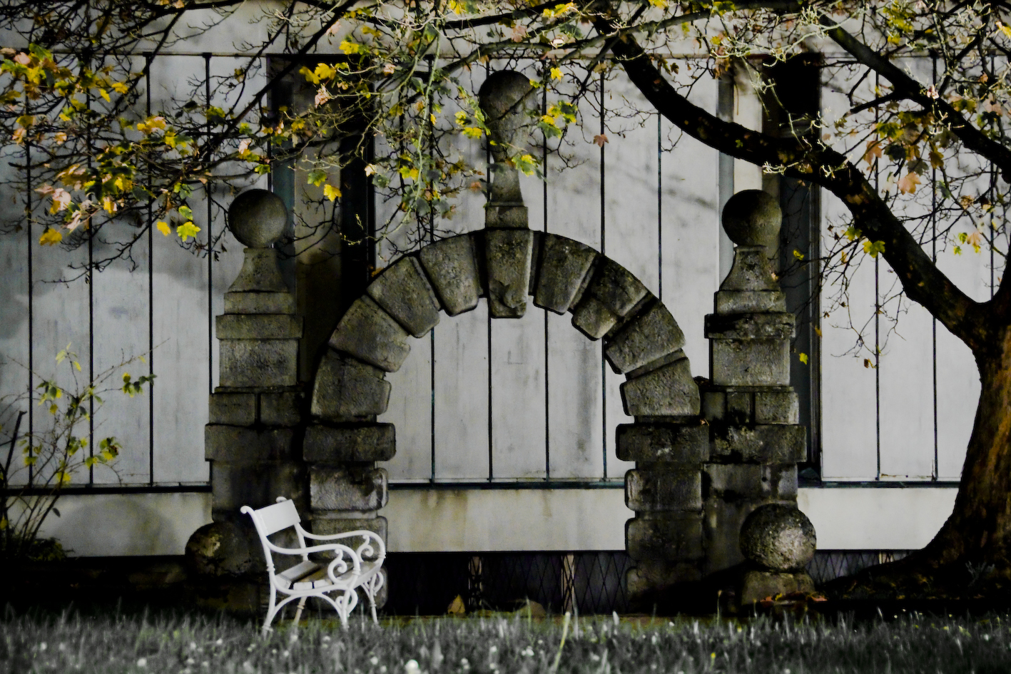 A portal to the museum gardens, Novo mesto, Slovenia